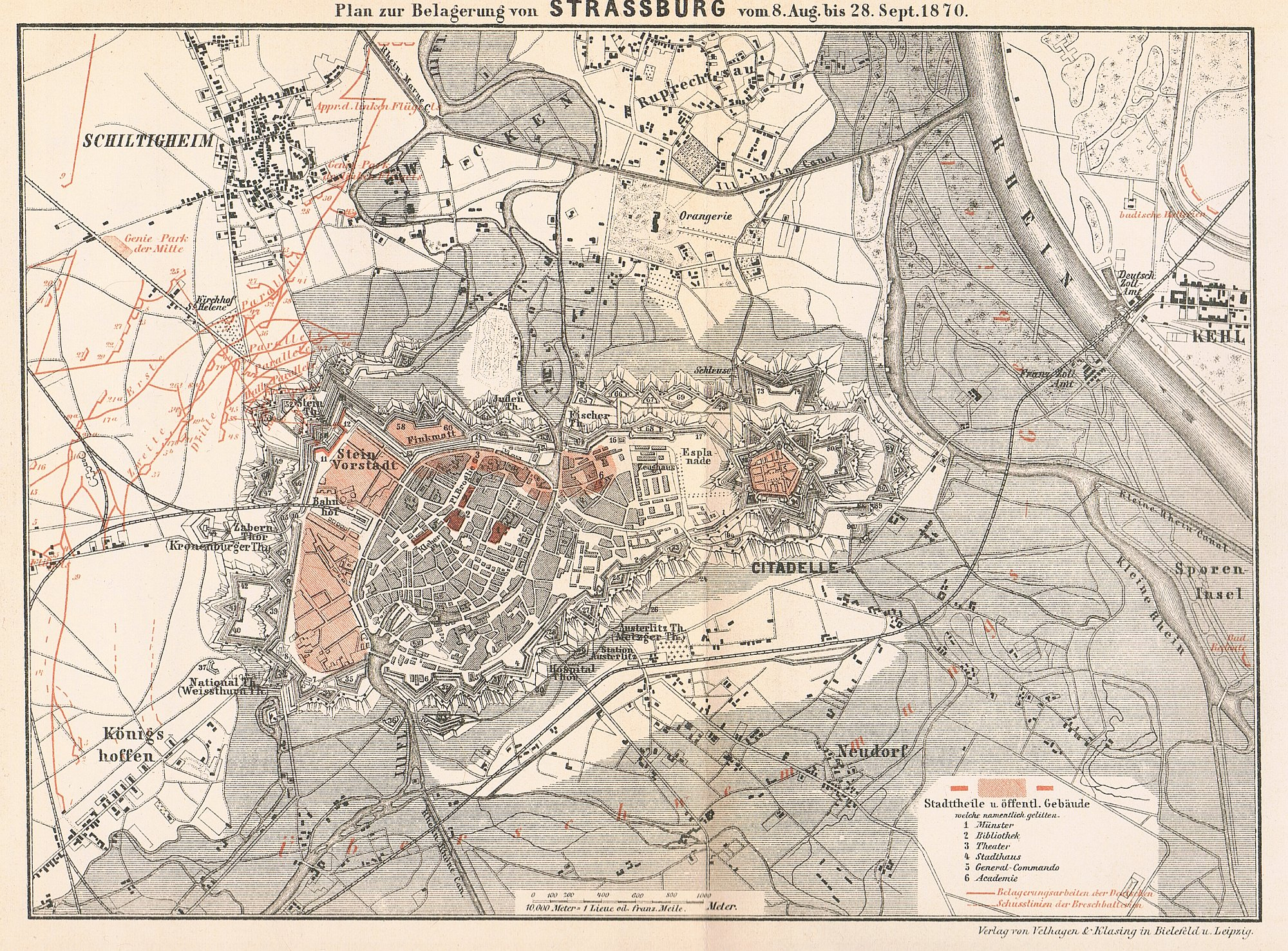 Map of the siegeworks around the city of Straßburg from the siege during the Franco-Prussian War of 1870-71.